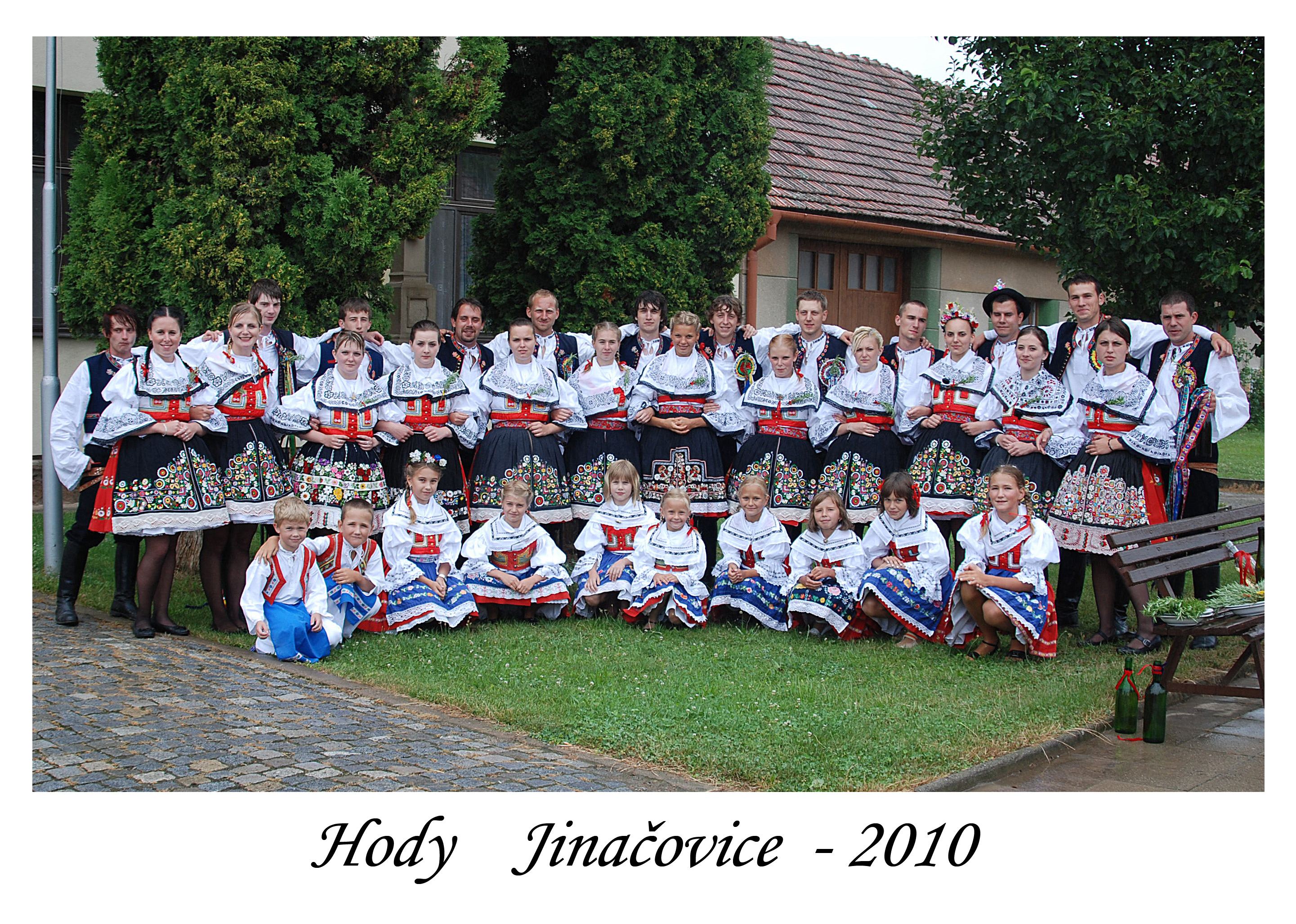 Jinačovice folklore days